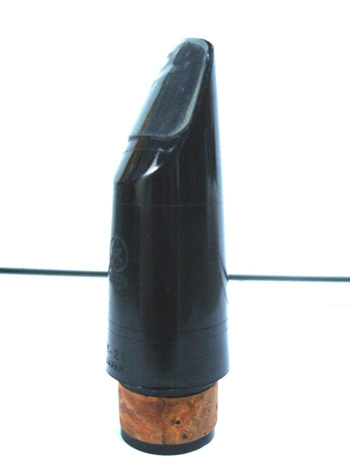 ClarinetMouthpiece